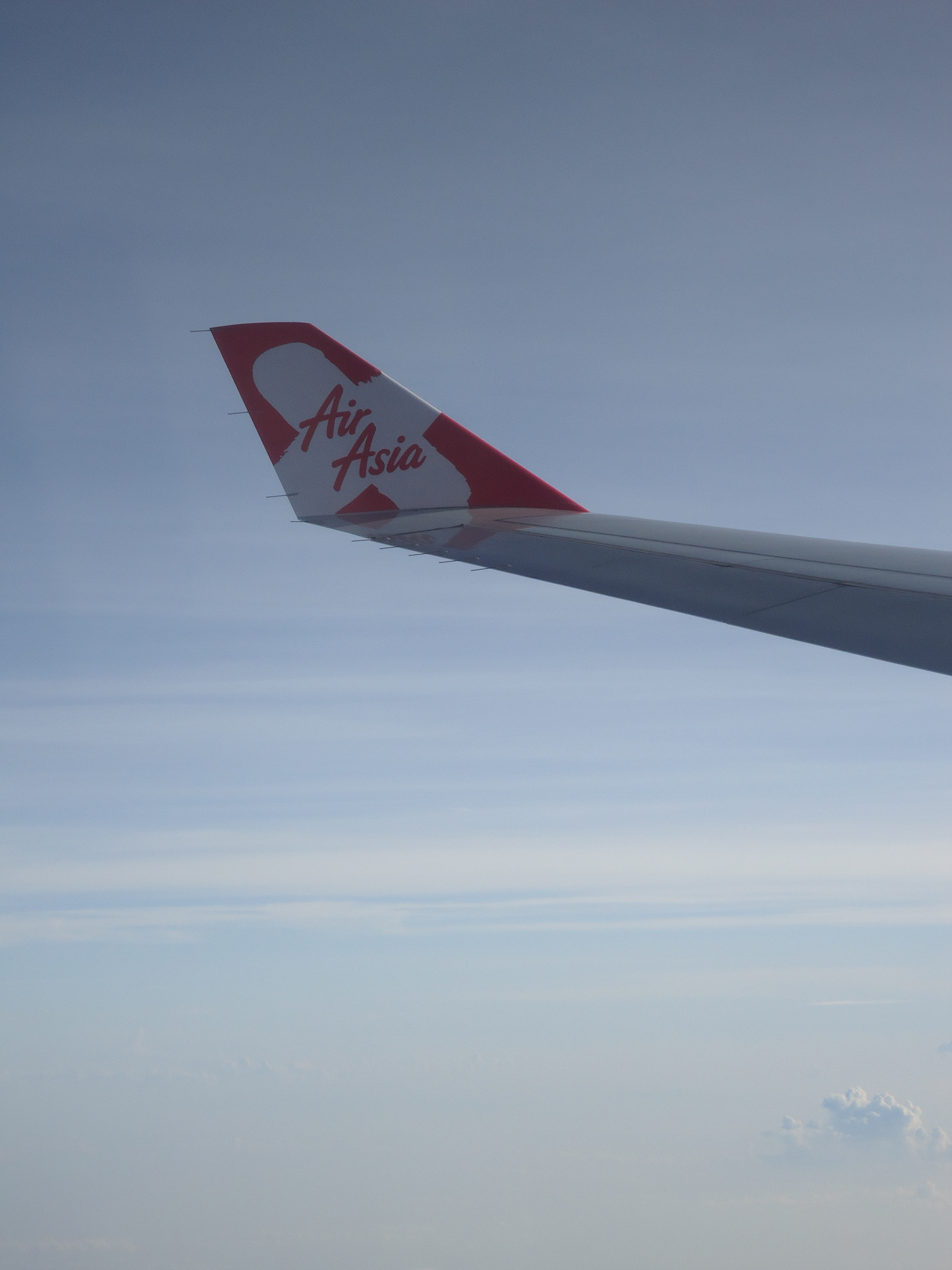 Wing of an airplane of Air Asia up of indian ocean